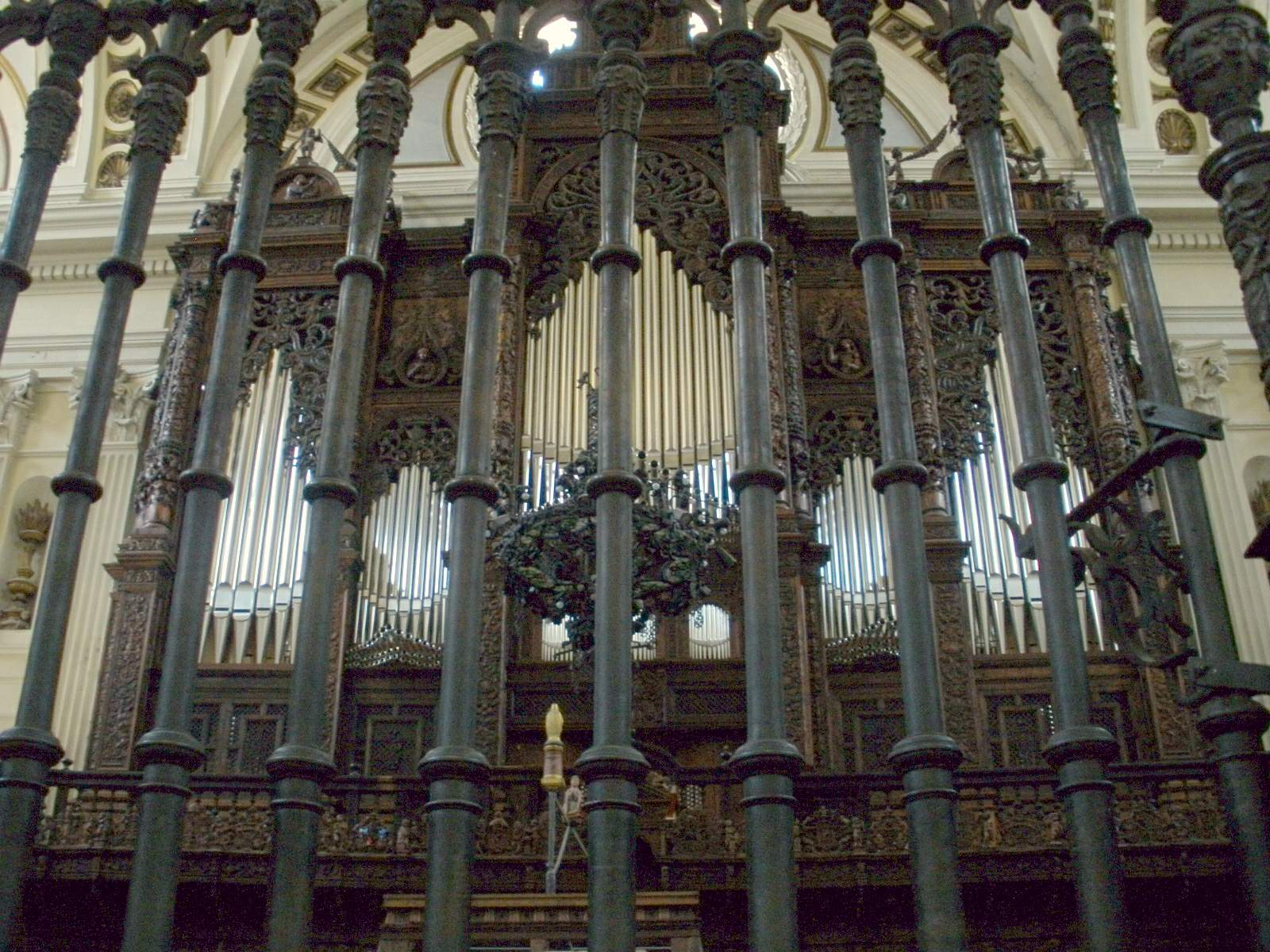 Rejería y órgano del coro de la Basílica del Pilar de Zaragoza